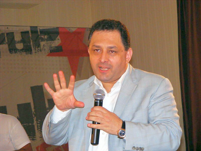 Romanian politician Marian Vanghelie speaks to Social Democratic Youth members in Otopeni, September 2009